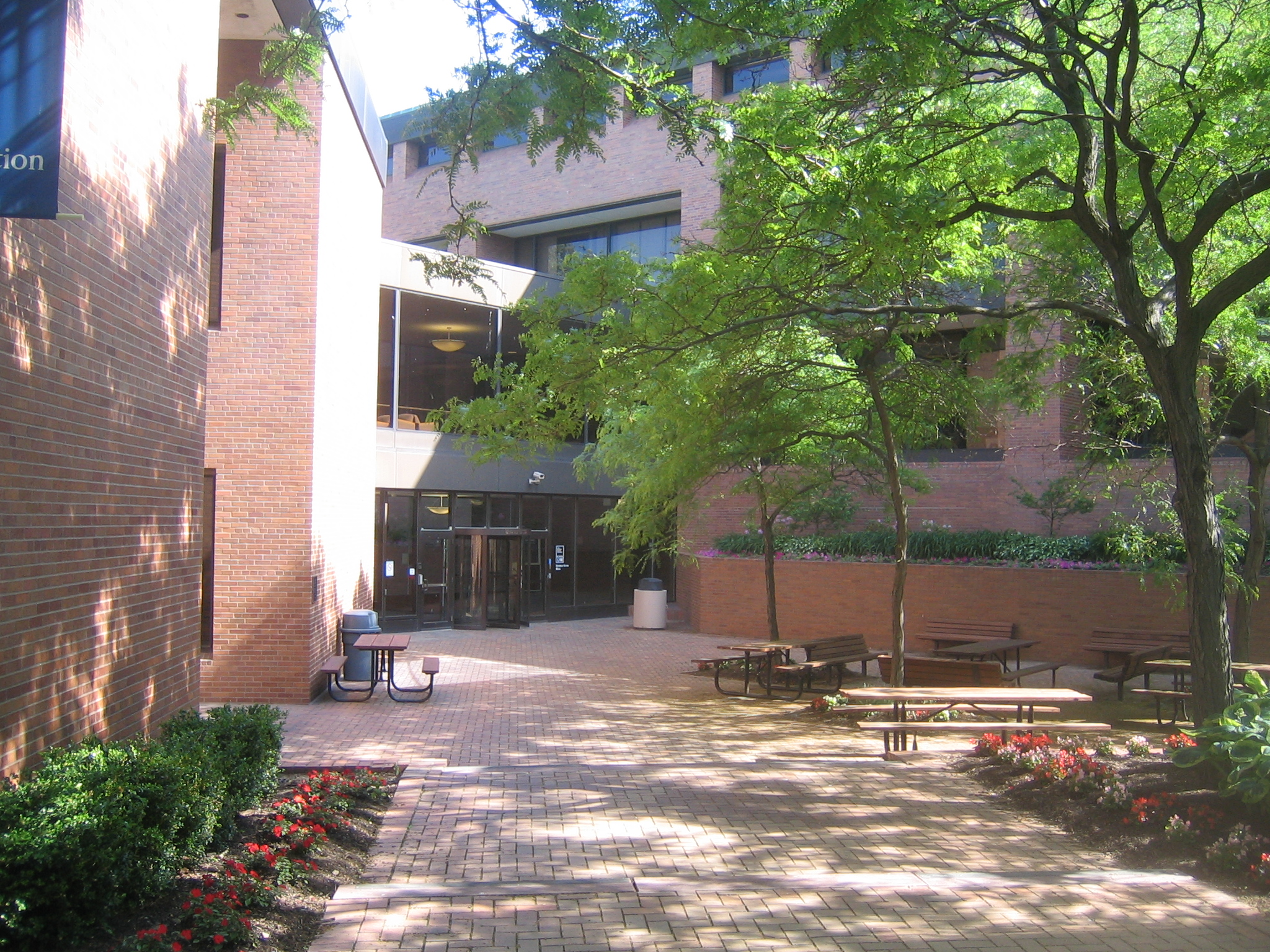 Entrance to CWRU Law